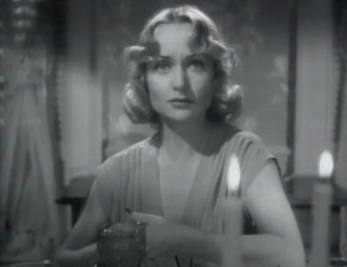 Screenshot of Carole Lombard from the film Made for Each Other